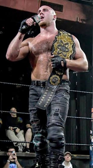 Fabian Aichner as Evolve Champion